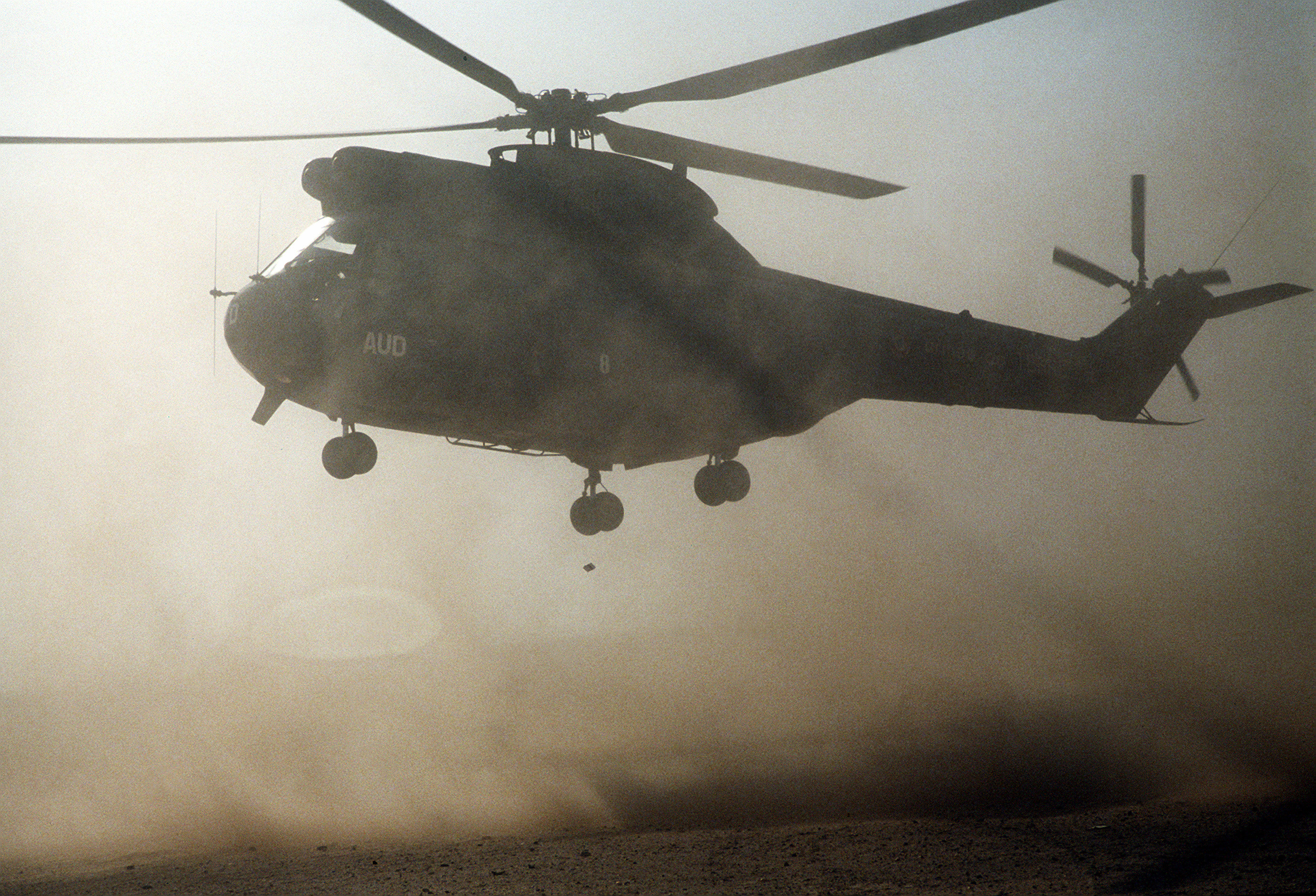 An SA.330 Puma helicopter of the French army lifts off in a cloud of sand during Operation Desert Shield.